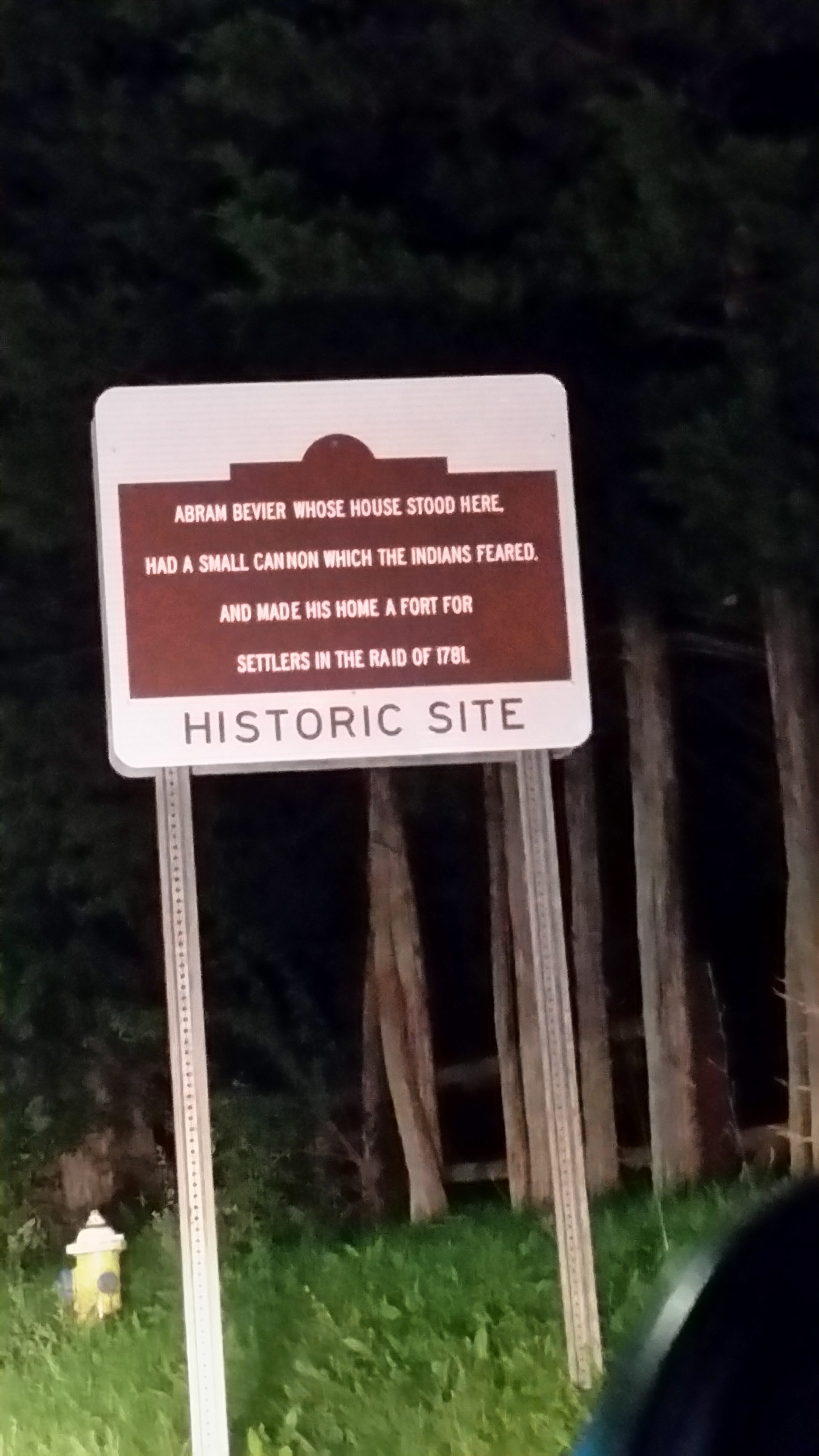 New York State historical marker for the Adam Bevier House in Napanoch, New York